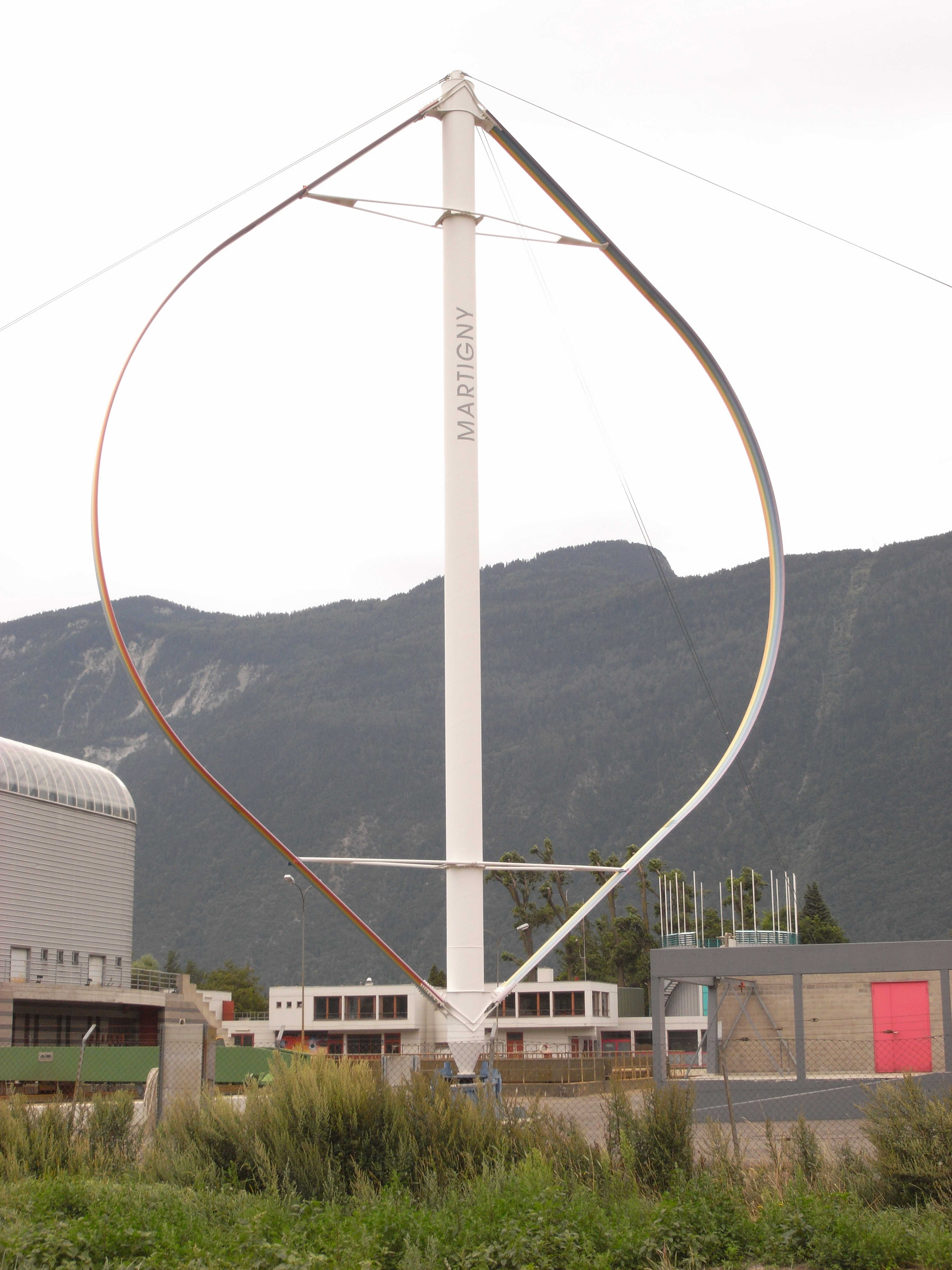 Darrieus wind turbine (Martigny, VS, Switzerland)